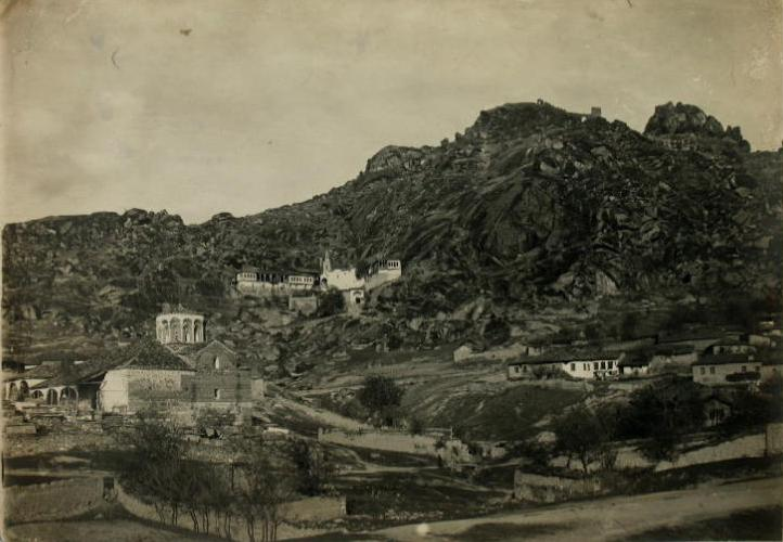 Treskavec Monastery, Prilep, Macedonia